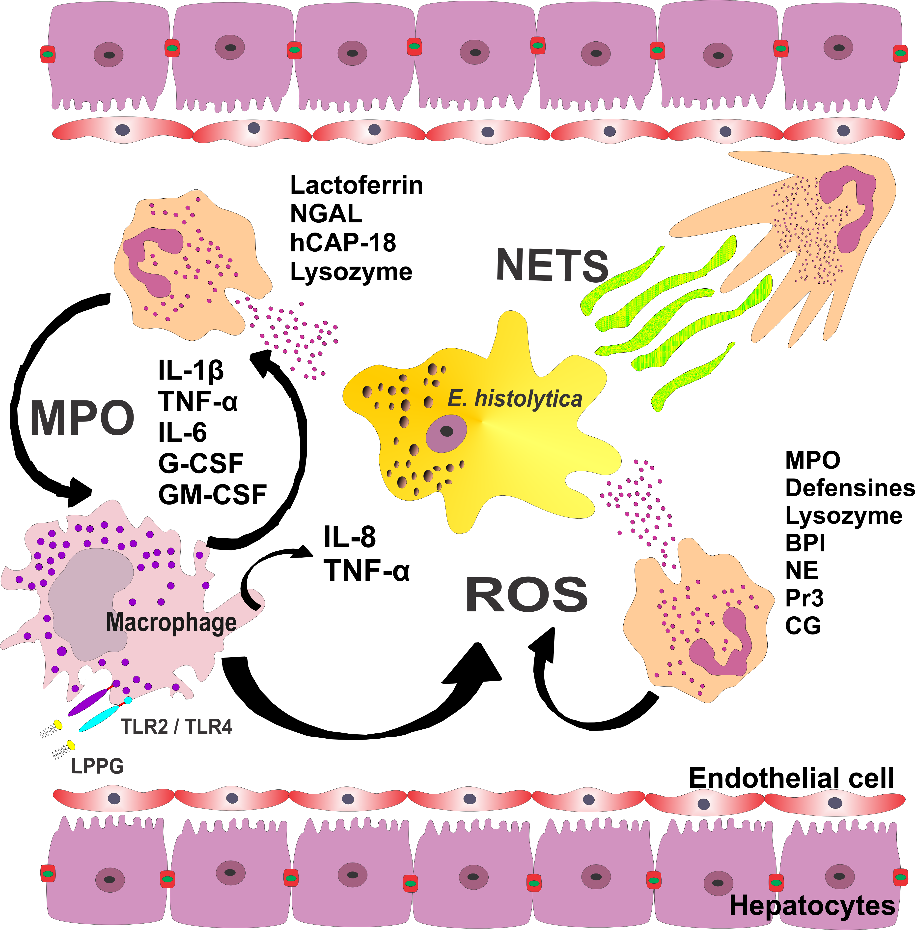 Figure 2 of paper Activated neutrophils provide signals for the activation and maturation of macrophages, which in turn release IL-1β, TNF-α, G-CSF, and GM-CSF. These cytokines extend the life span of neutrophils at sites of inflammation. The interaction of lipopeptidophosphoglycan (LPPG) with TLR-2 and TLR-4 results in the activation of NF-kappa B and the release of IL-8, IL-10, IL-12p40, and TNF-α from human macrophages. Activated neutrophils enhance the production of reactive oxygen species (ROS), activating NF-kB and increasing neutrophil degranulation. Primary granules contain MPO, defensins, lysozyme, bactericidal/permeability-increasing protein (BPI), neutrophil elastase (NE), proteinase 3 (PR3), and cathepsin G (CG). Secondary granules are characterized by the presence of lactoferrin, neutrophil gelatinase-associated lipocalin (NGAL), human cationic antimicrobial protein 18 or cathelin (hCAP-18), and lysozyme. MPO can bind to monocytes, which might lead to the production of ROS and proinflammatory cytokines. Another function of neutrophils is the formation of neutrophil extracellular traps (NETs), composed of DNA bound with antimicrobial components (e.g., bacterial permeability-increasing protein, myeloperoxidase, elastase, lactoferrin). NET formation may have an important role in combating amebas.